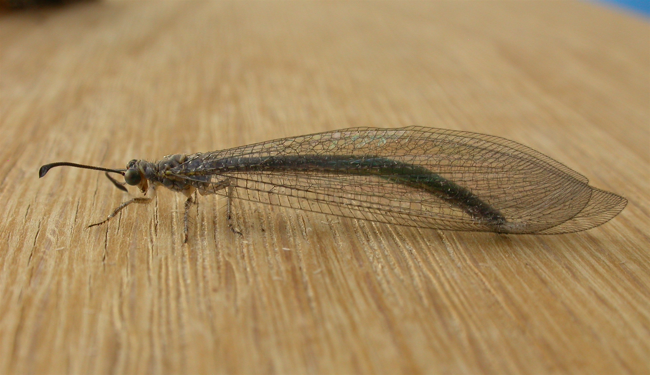 Myrmeleon pictifrons (Gerstaecker, 1885), to MV light, Aranda, ACT, 29/30 January 2009